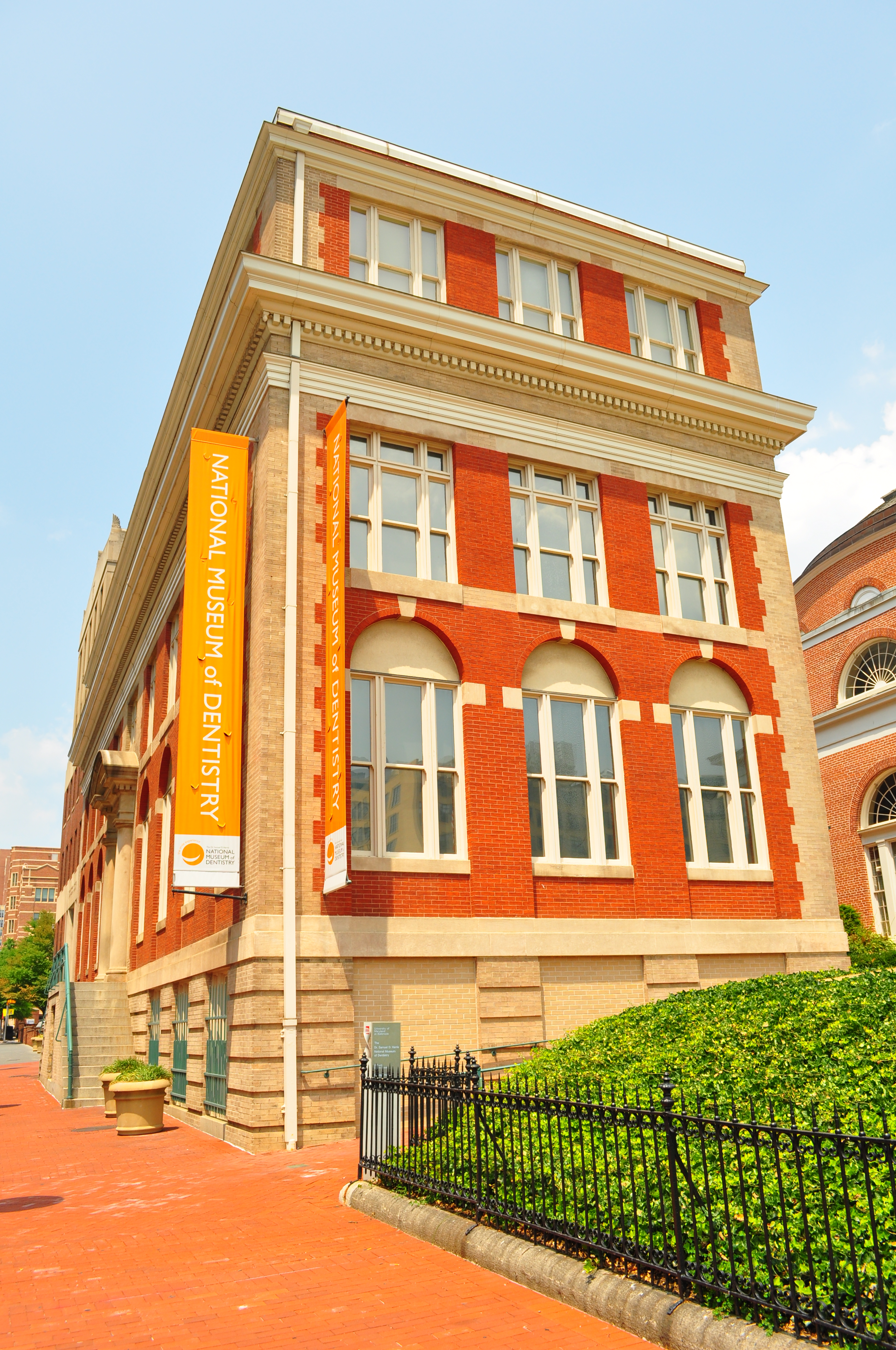 A photo of the National Dentistry Museum, taken July 7, 2010